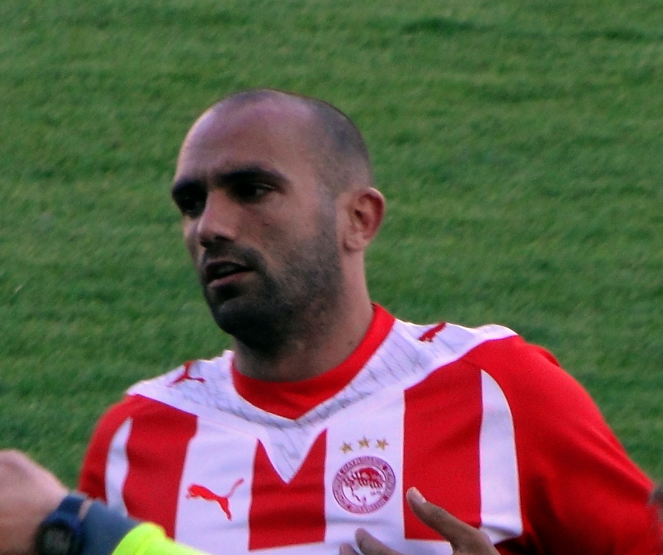 Raul Bravo, 2010